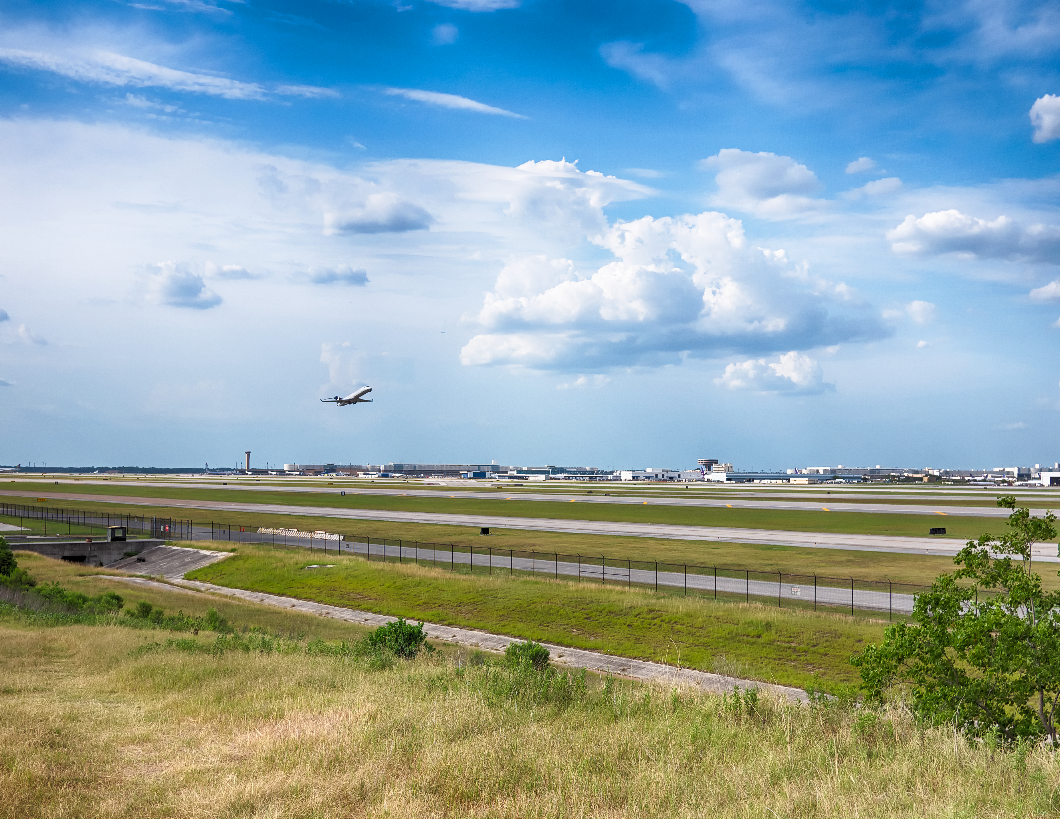 George Bush Intercontinental Airport houston texas, IAH runway 33L and 33R